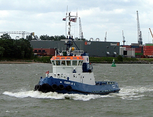 Author: Frederic Logghe 1996-2005 MDA Photo Library Released under the GFDL with author's permission.